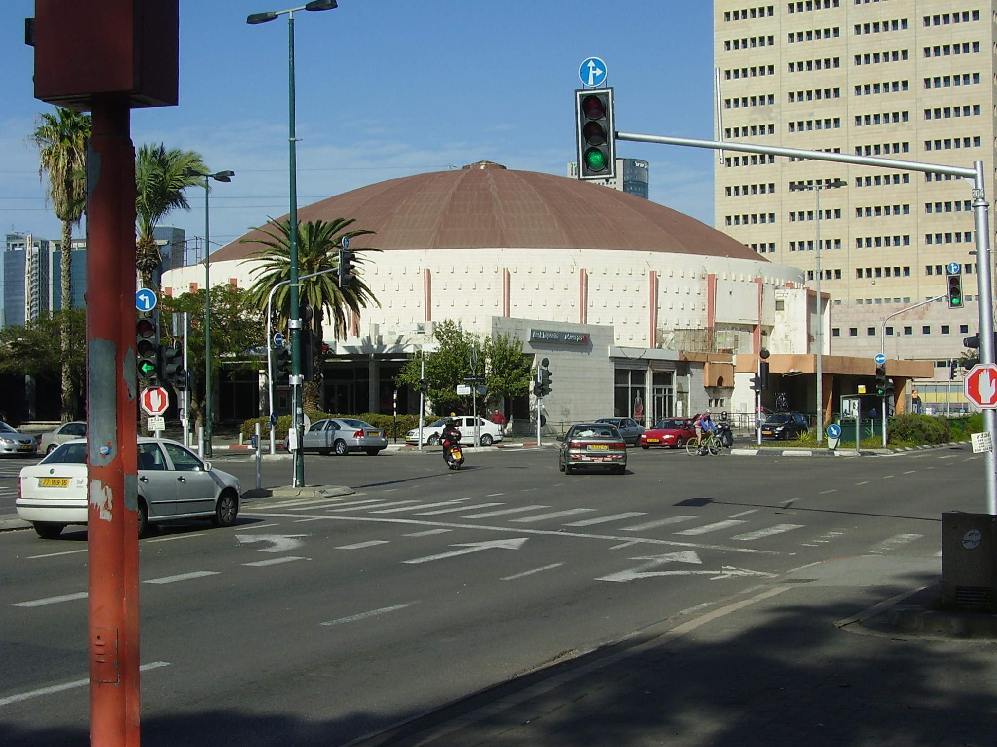 the cinerama building in tel aviv